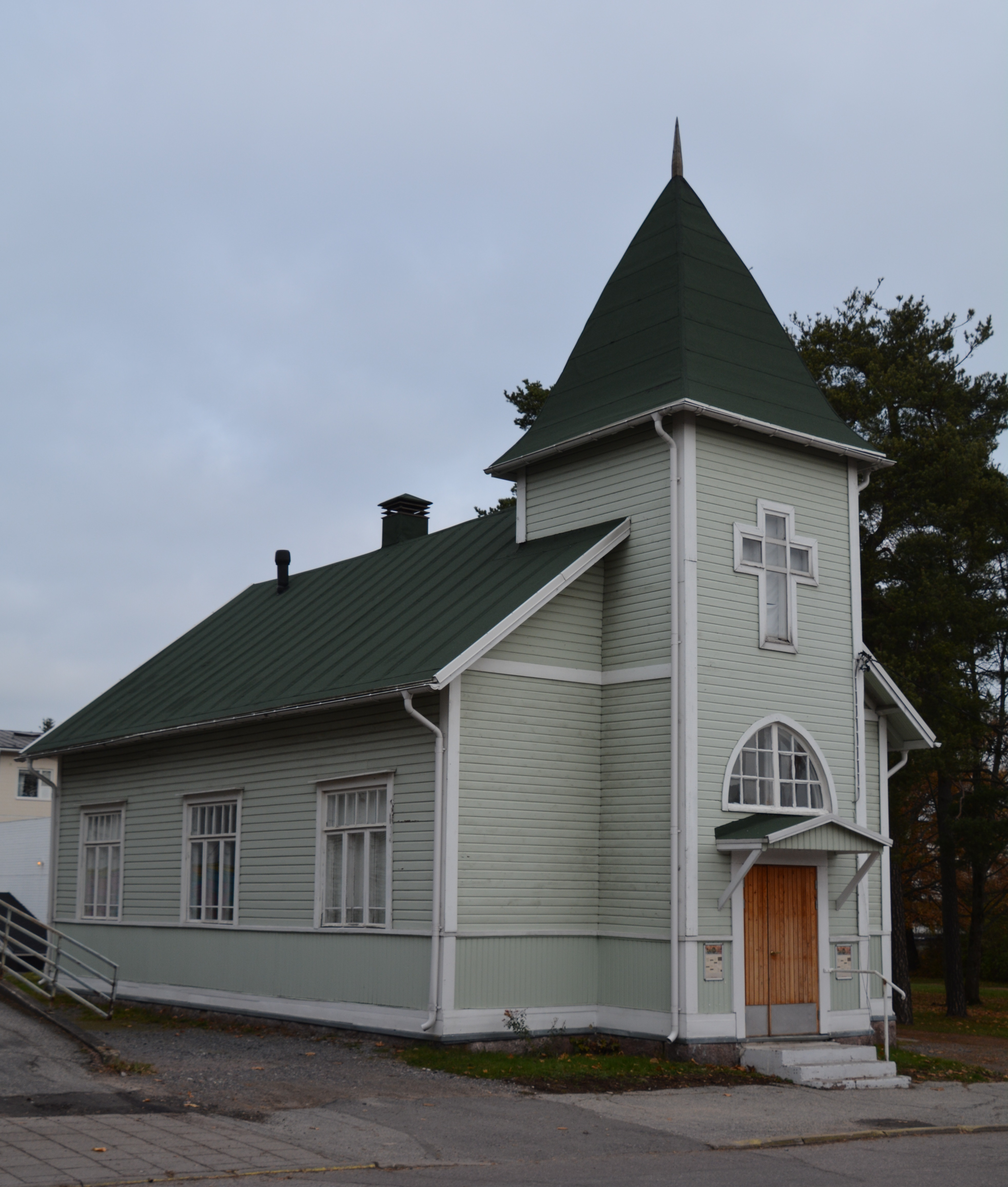 Betel church in Karis, Raseborg, Finland